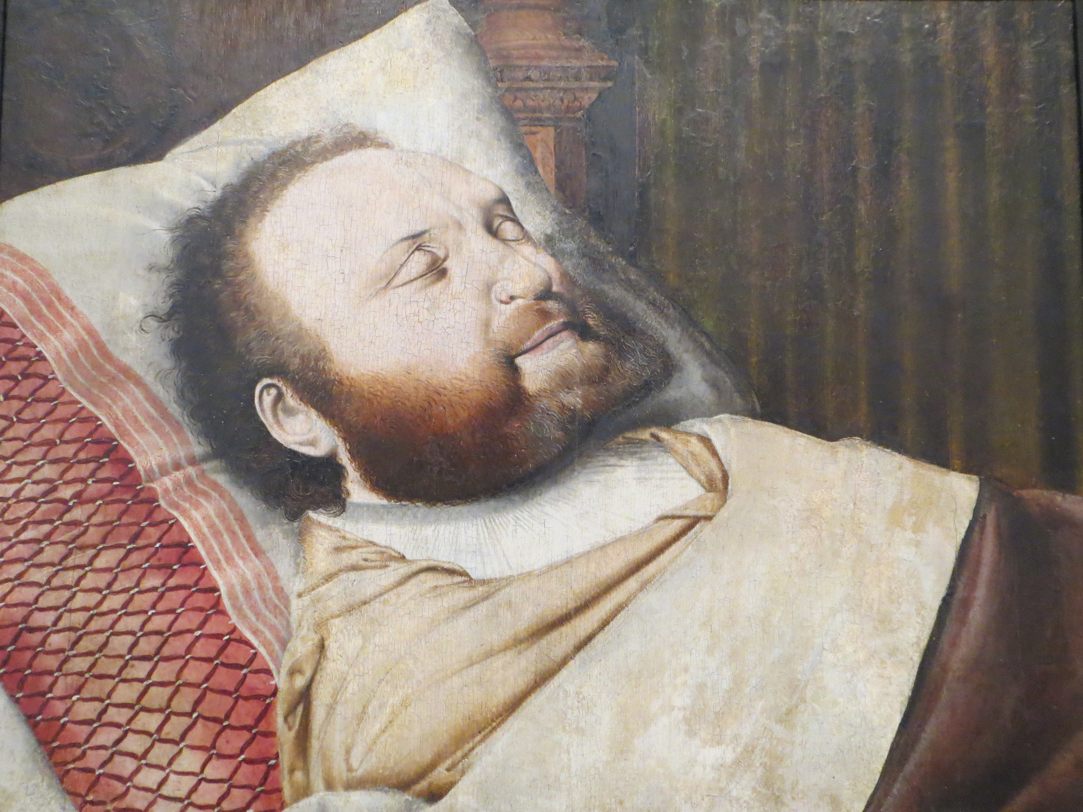 Hermann Bonnus on his death bed, oil on oak, c. 1548; 1835 documented as in the Stadtbibliothek Lübeck; the portrait was inserted into his Epitaph in St. Marien in 1917, since 1945 (?) in the collection of the St.-Annen-Museum, 33x55 cm